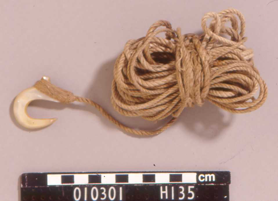 H000135 Fish hook of mother of pearl with a plain pointed apex bound to a fibre line. Collected from the Society Islands during Cook's voyages to the Pacific 1768-1780.